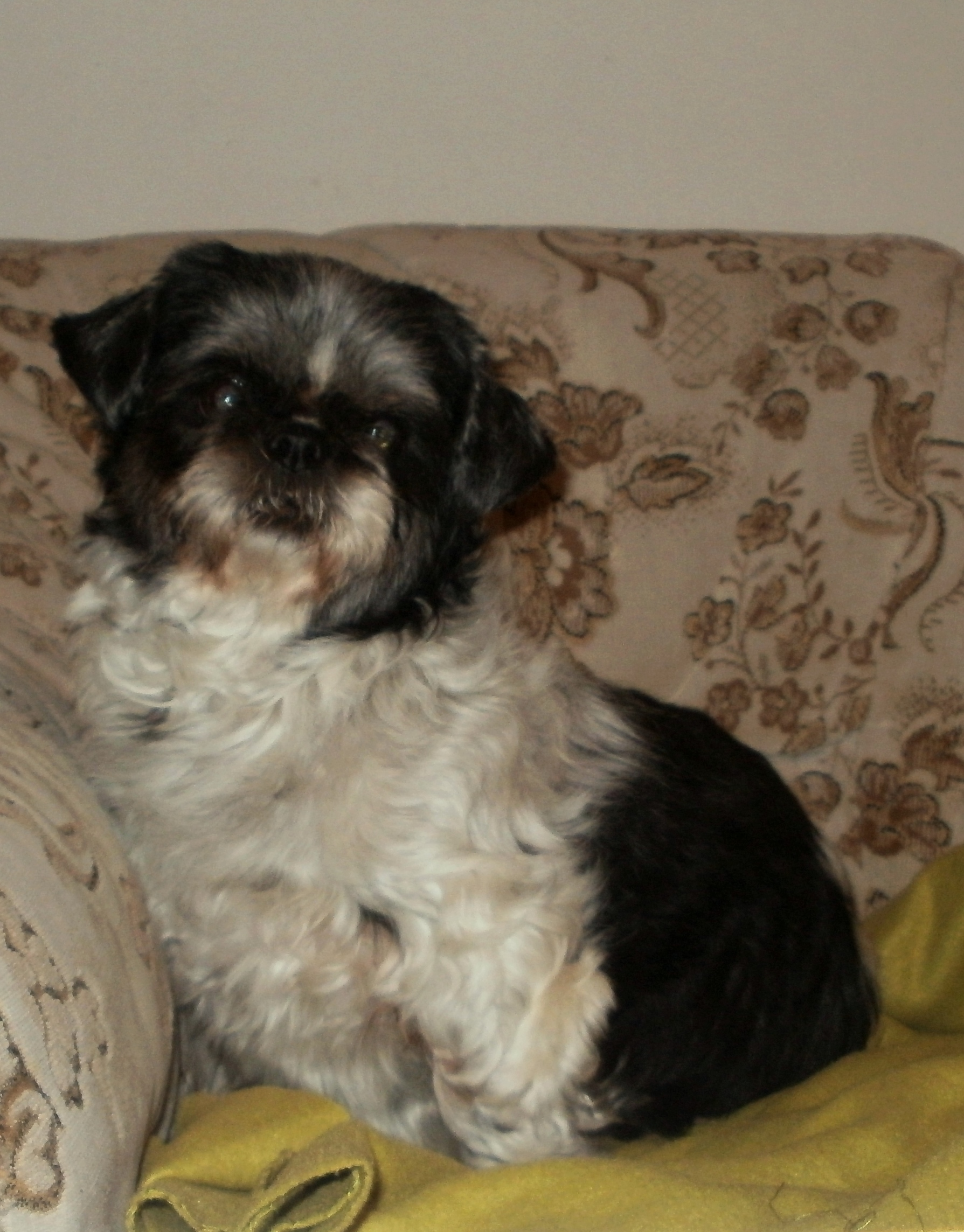 black and white stripy Shih-tzu